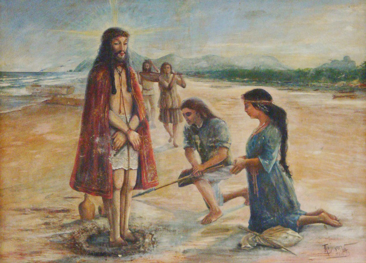 Painted by Trajano Vaz (1872 or 1887 — 1942) in 1918